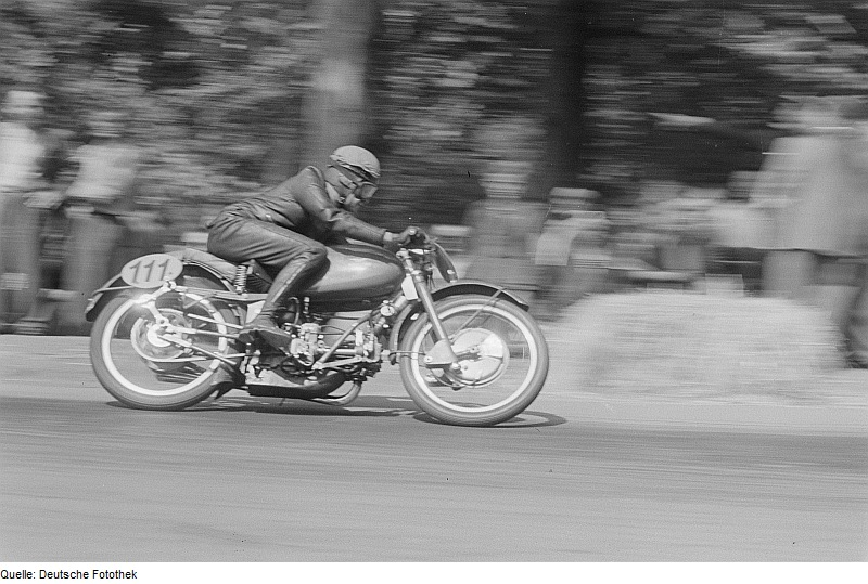 Original image description from the Deutsche FotothekMotoradfaher Motorradfahrer